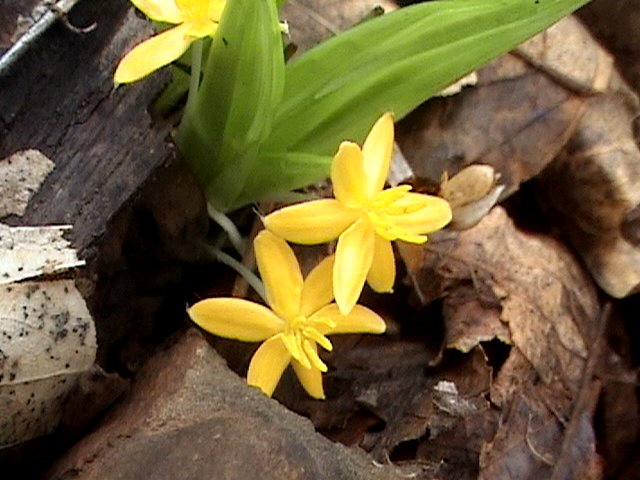 Yellow Ground Star (Curculigo orchioides)